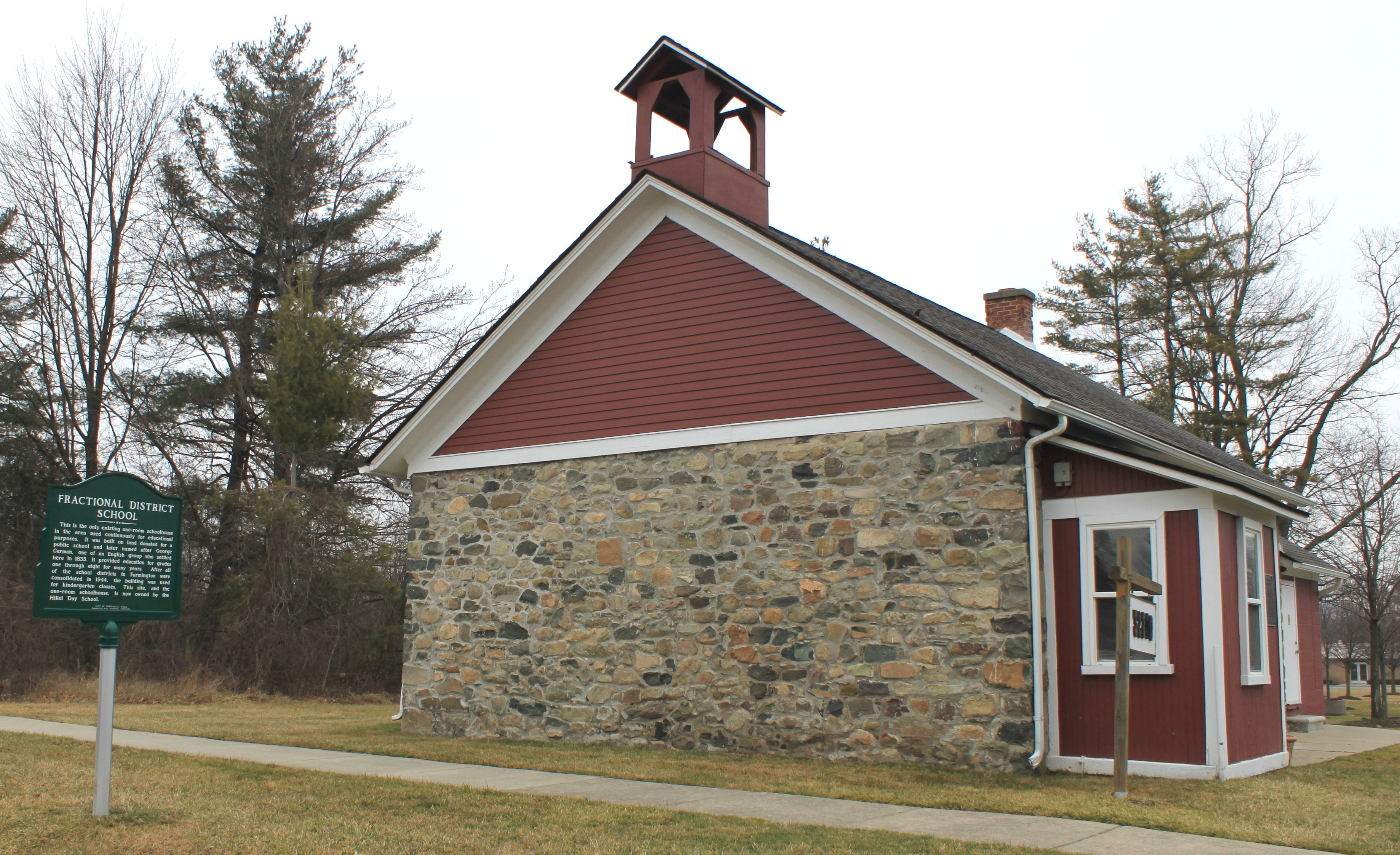 German School historic site, 32240 Middlebelt Road, Farmington Hills, Michigan. The building is listed in the Register of Michigan State Historic Buildings and was erected circa 1870 according to the registry's website. The building is owned by Hillel Day School and is located at the entrance to its parking lot.